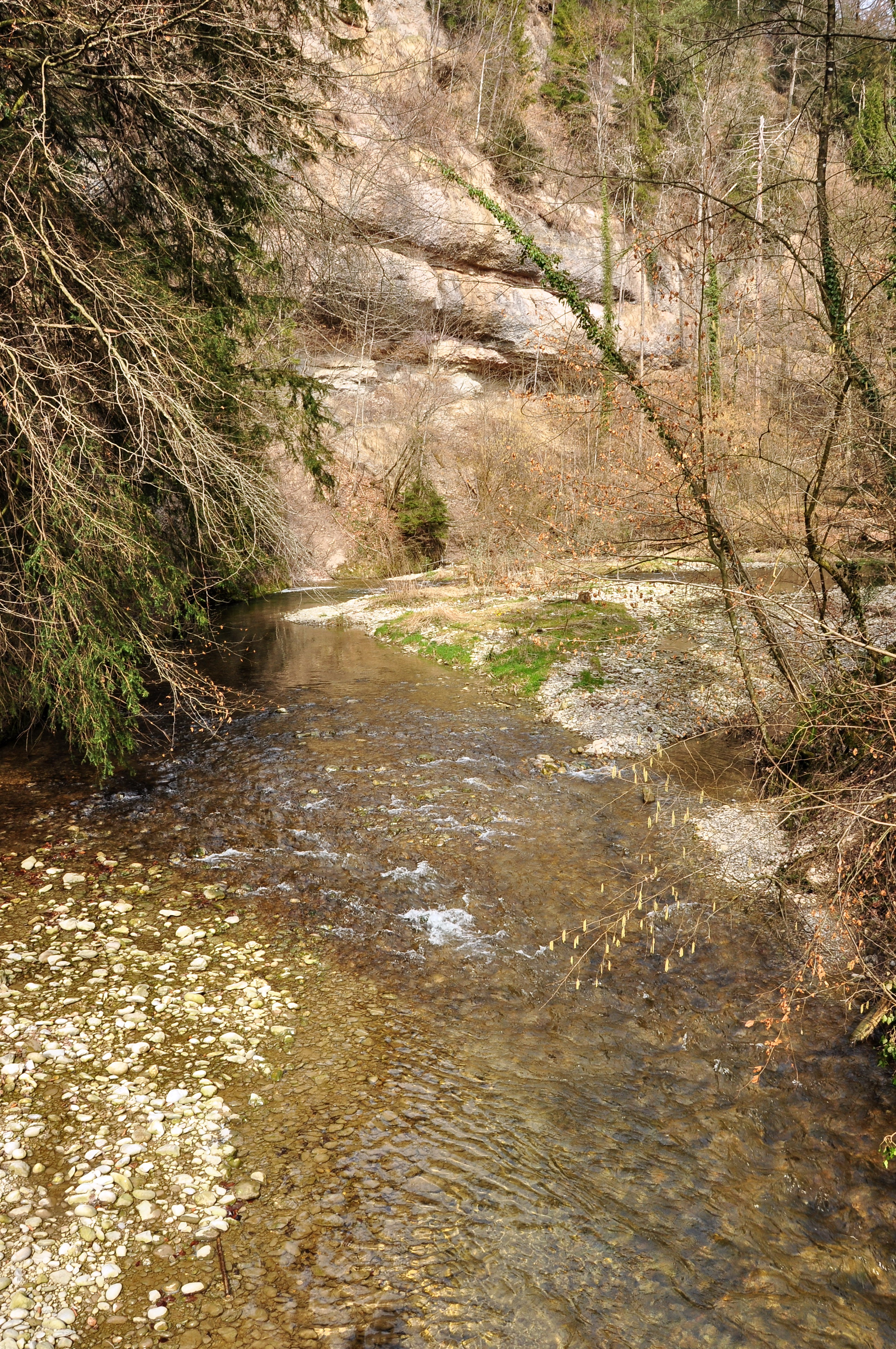 Jona river respectively Tannertobel between Tann and Rüti (Switzerland)